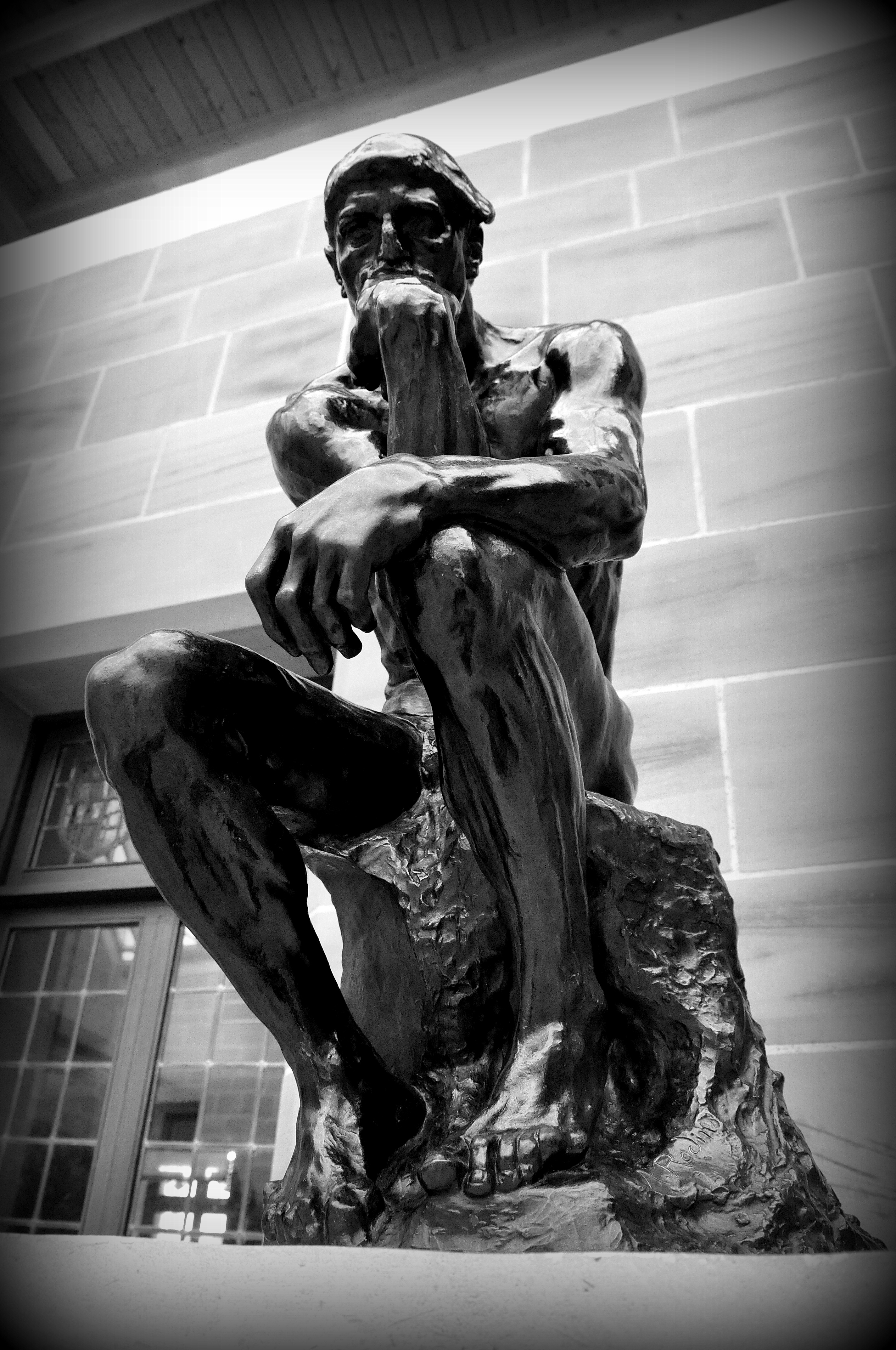 Bronze, Auguste Rodin. The Burrell Collection, Glasgow, Scotland, UK.